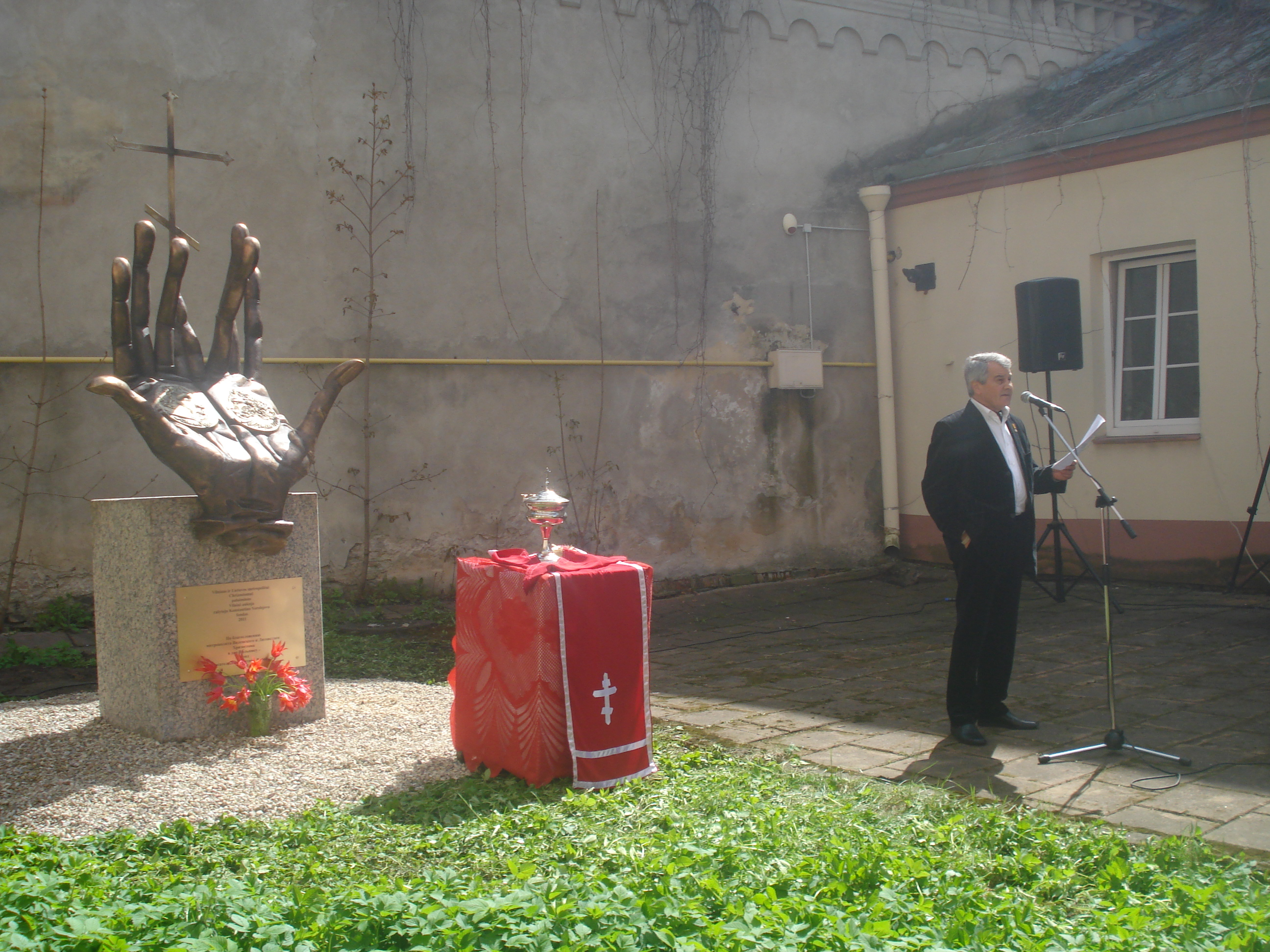 Juryj Kobrin (born 1943) during the opening ceremony for the monument to the great Russian poet Alexander Pushkin and his great grandfather Abram Hannibal in Vilnius